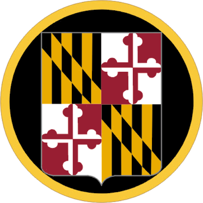 Maryland Army National Guard Shoulder Sleeve Insignia; (TIOH Dwg. No. A-1-484). Description: On a black disc 2 3/4 inches (6.99 cm) in diameter within a 1/8 inch (.32 cm) gold border, the shield of the Great Seal of Maryland Proper (1st and 4th quarters, yellow and black; 2nd and 3rd quarters, white and red). Background: The shoulder sleeve insignia was originally approved for Headquarters and Headquarters Detachment on 1949-03-08. It was redesignated with description amended for Headquarters, State Area Command, Maryland Army National Guard on 1983-12-30.